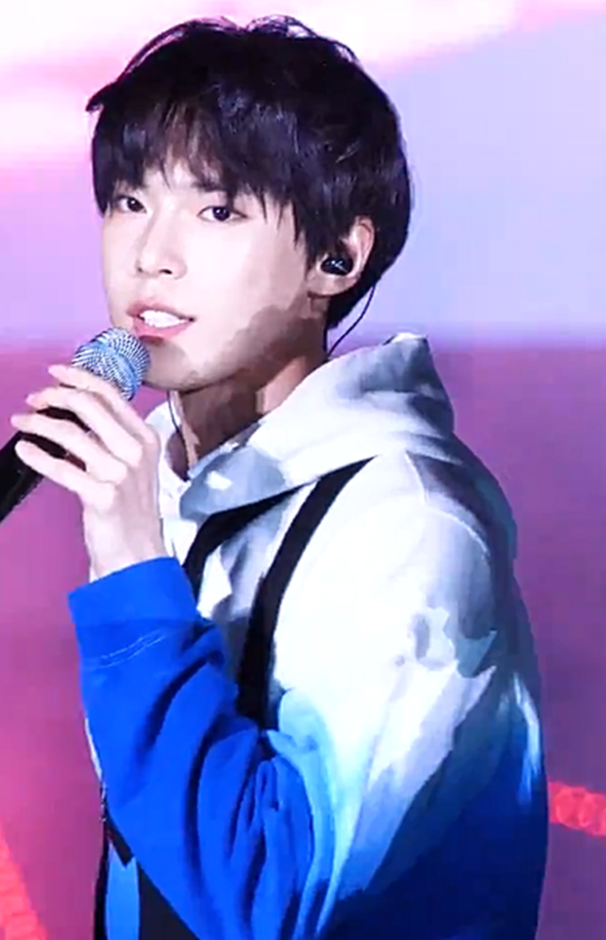 Doyoung performing "Good Thing" at Lotte Duty Free Family Festival on September 15, 2017.